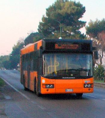 BredaMenarini 240L of public service (ACTV) in Venice Lido.